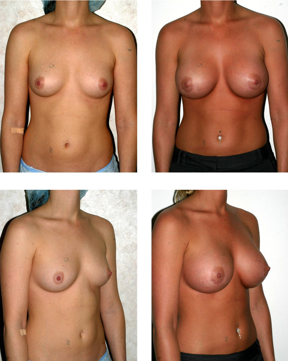 Bilateral Breast Augementation, Silicone, high profile, 500cc implants. Dr. Otto J. Placik Board Certified Plastic Surgeon Chicago, IL. For use of image please reference-Wikipedia terms of use